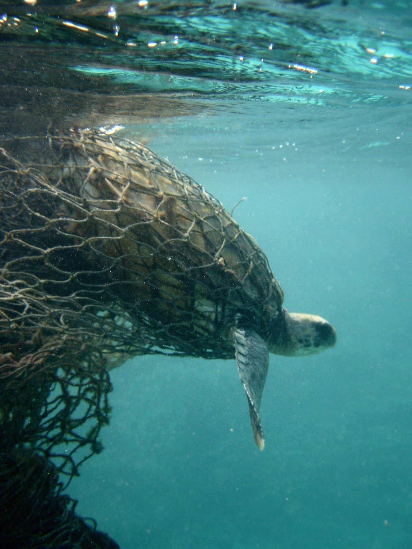 A sea turtle (Chelonia mydas) entangled in a ghost net.